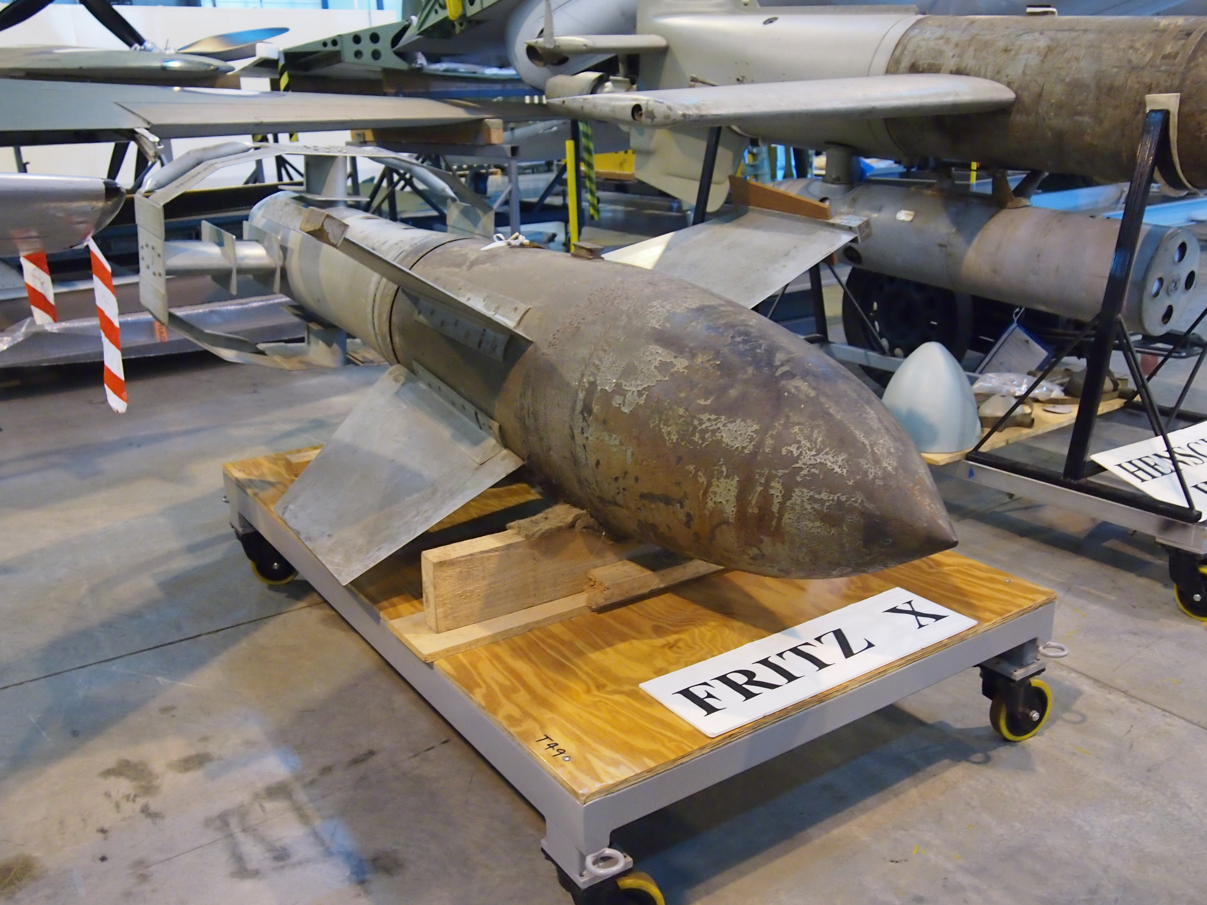 A Fritz-X bomb at the Australian War Memorial's Treloar Technology Centre in September 2012